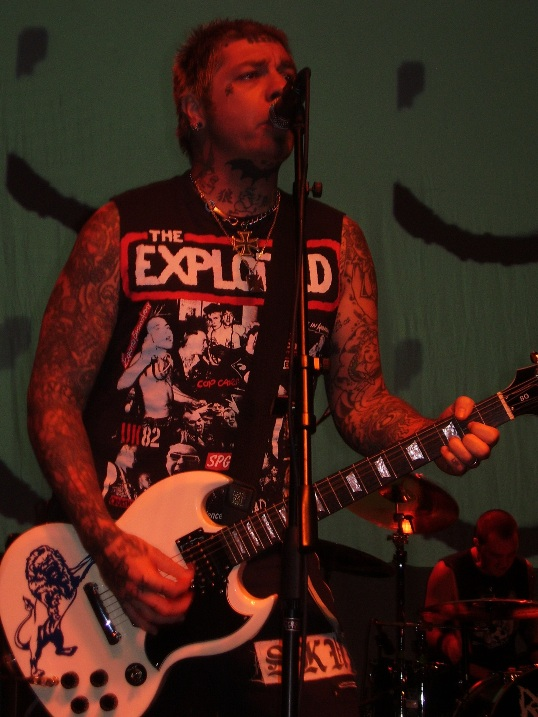 Lars Frederiksen at Rancid live show in Ventura Theater Sept 24